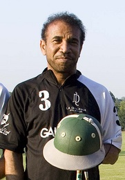 Ali Albwardy at Ham Polo Club for the 2010 Gaucho Polo at Sundown